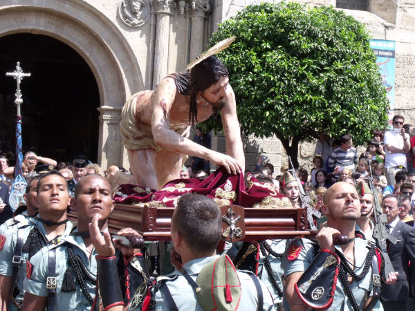 mayor dolor